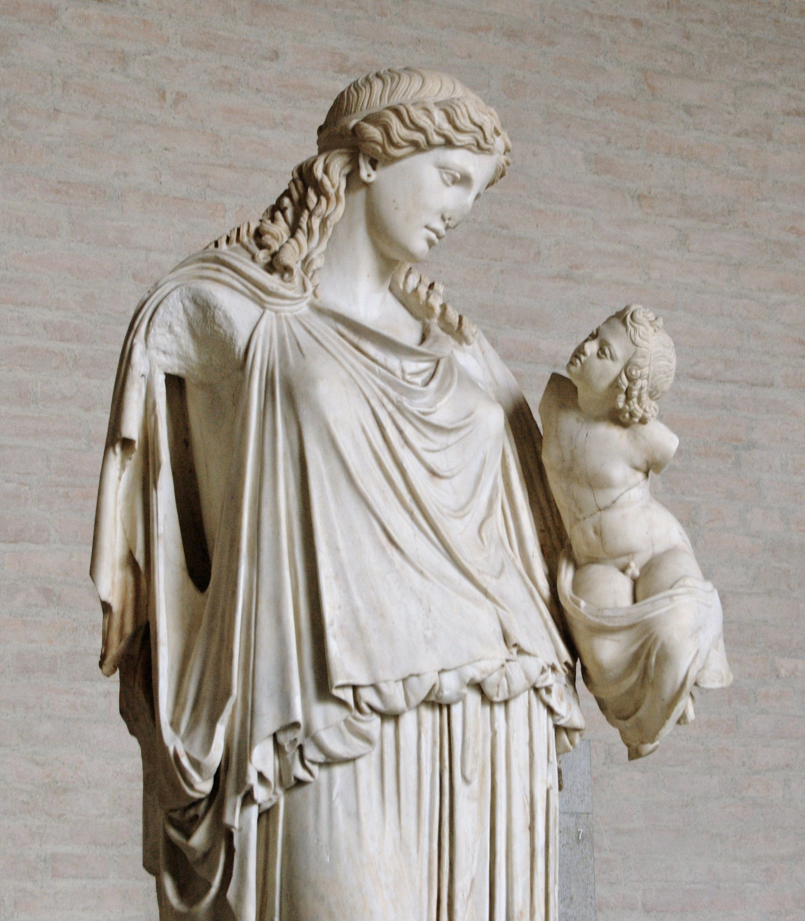 Eirene (Peace) bearing Plutus (Wealth), Roman copy after a Greek votive statue by Kephisodotos (ca. 370 BC) which stood on the agora in Athens.